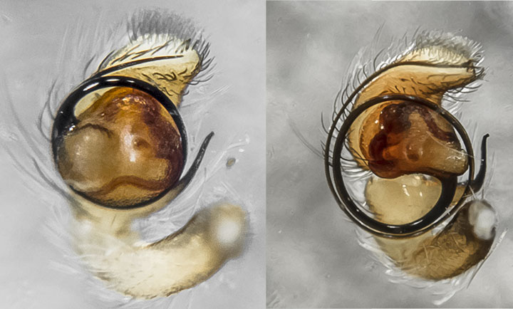 Afracilla palps